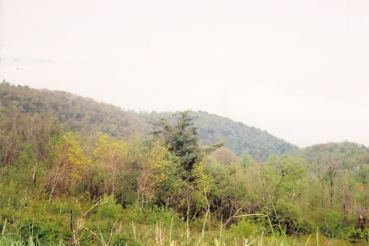 Woodlands near Thornton Gap, in the Blue Ridge Mountains — view east from Skyline Drive, in Shenandoah National Park, Virginia.